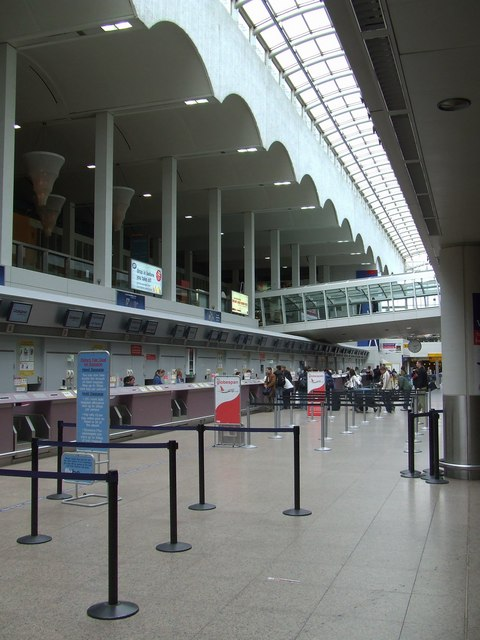 Outside in What is now the T1 check-in area was originally the main access road in Sir Basil Spence's original building of 1966. The edge of Spence's famous barrel vaulted roof shows the former southern elevation of the building which is now inside here File:Glasgow International Airport Terminal.jpg. The original northern elevation can be seen here File:Airside at Glasgow International Airport - .uk - 387216.jpg.